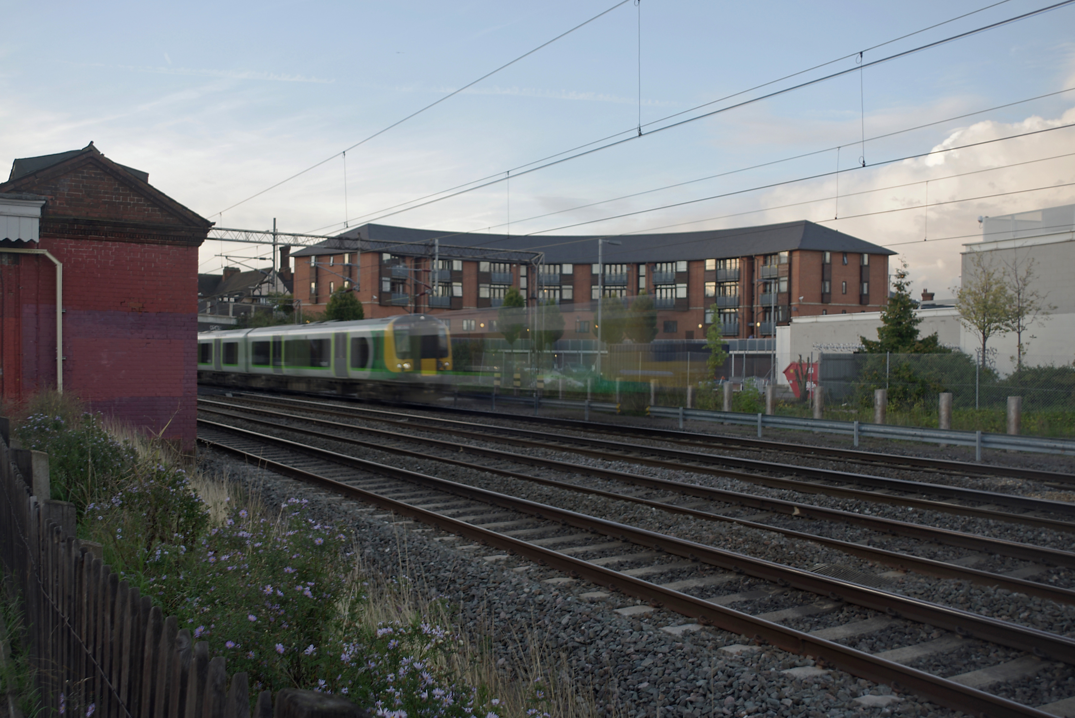 London Midland Desiro EMU 350266 passes Kenton headed south to Euston. This shot was taken using HDR, hence the ghosting effect.